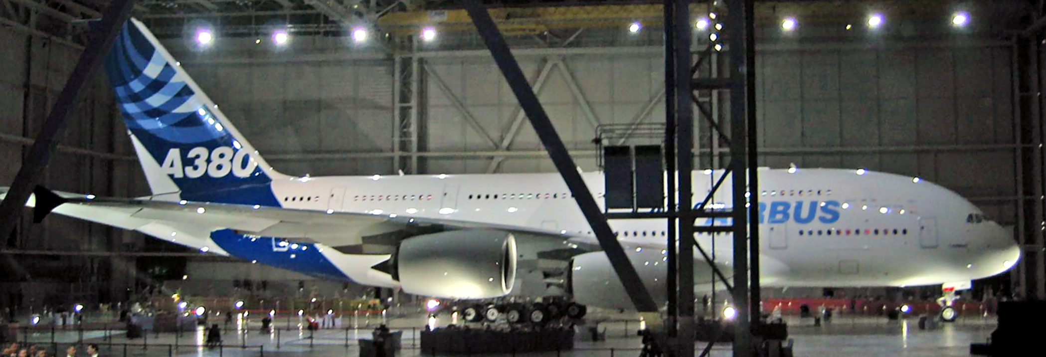 The first complete Airbus A380 at the "A380 Reveal" Ceremony in Toulouse